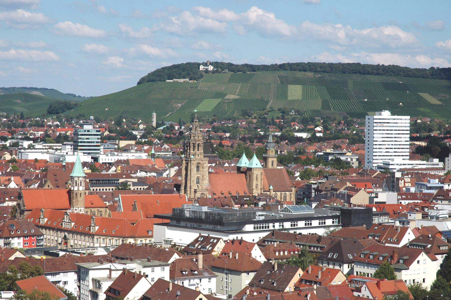 Inner city of Heilbronn (Germany) as seen from the Rosenberg high rise